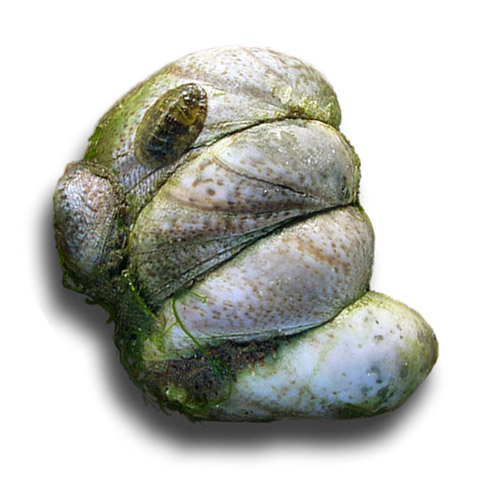 group of shells of Crepidula fornicata